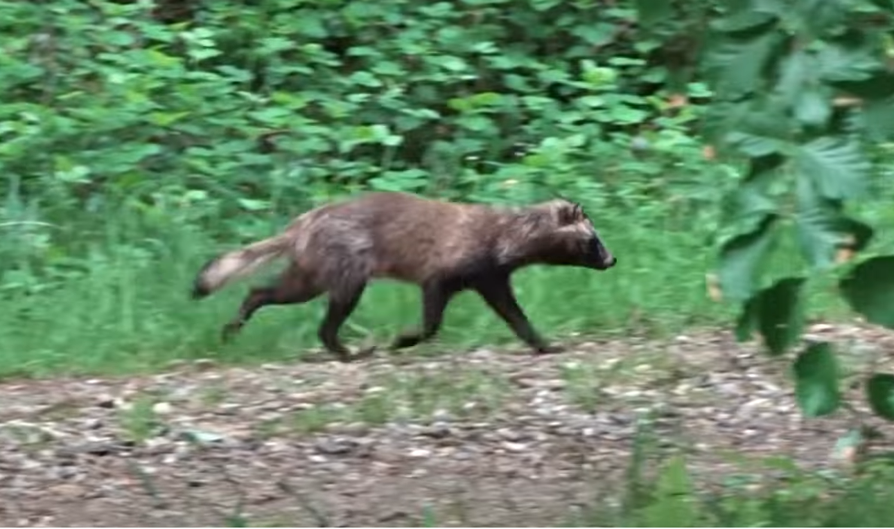 Raccoon dog in Denmark